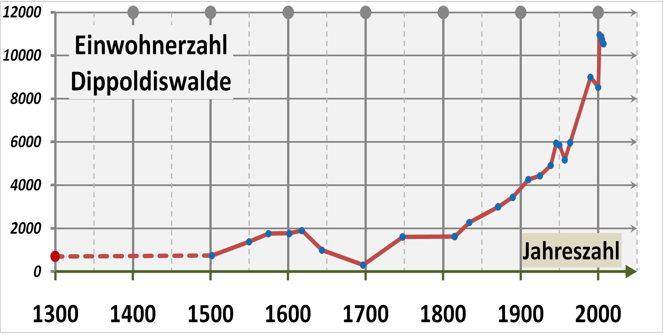 Demography of Dippoldiswalde, a City in Saxonia/Germany